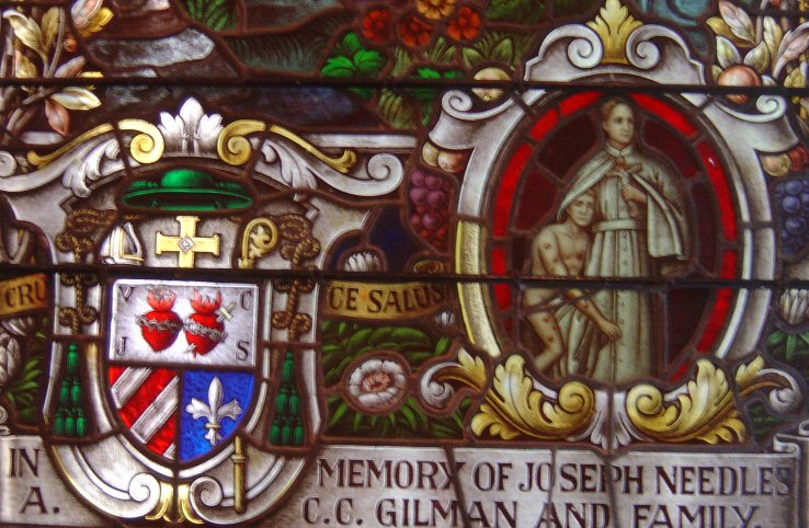 Episcopal arms of Msgr. Koeckemann, and inset of Father Damien de Veuster in a window at Cathedral of Our Lady of Peace, Honolulu.. Pic taken and uploaded by User: Aloysius Patacsil.